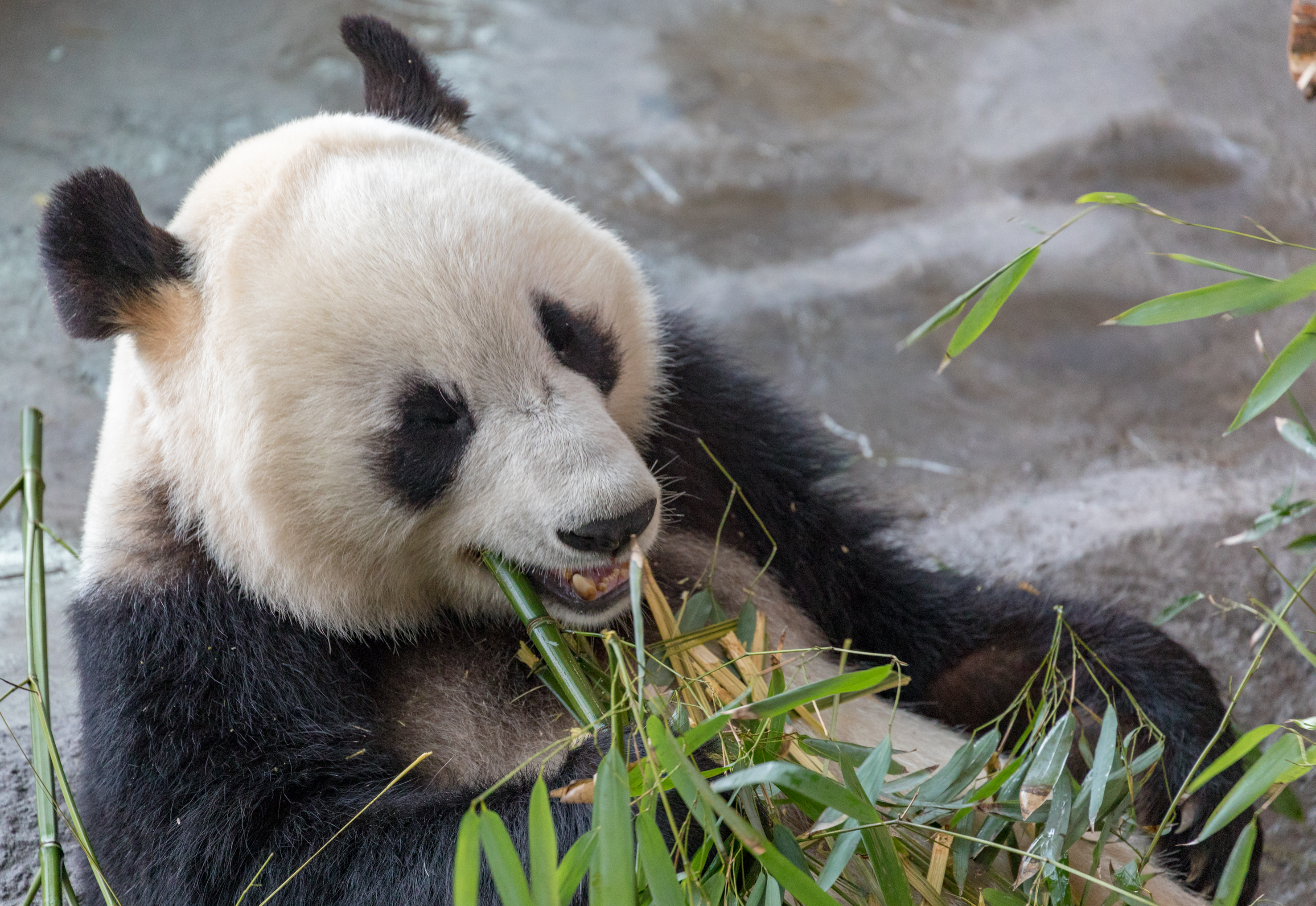 The Snowpanda House of Ähtäri Zoo. Upon examining the complex in November 2017, the top experts of China’s State Forestry Administration’s panda centre stated that the building and the outside enclosures are the best outside of China. The Snowpanda House includes a viewing space where the public can see the pandas spending time in their outdoor and indoor enclosures. (ahtarizoo.fi) There are two pandas, male (Pyry) and female (Lumi). They don't live together, not yet. They arrived to Finland from China in January 2018.